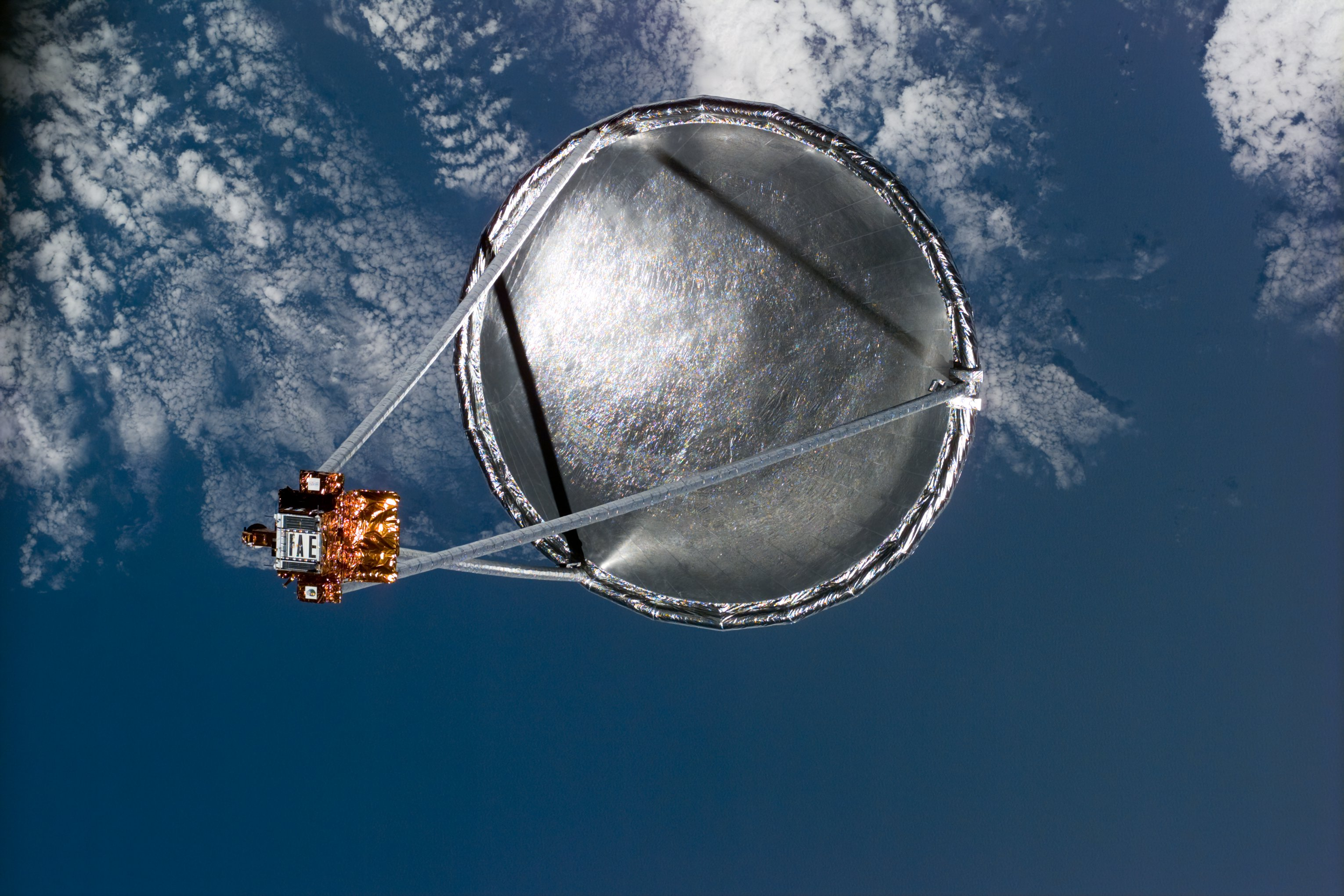 Inflatable Antenna Experiment released from shuttle Endeavour during STS-77 mission. Image ID: s77e5022